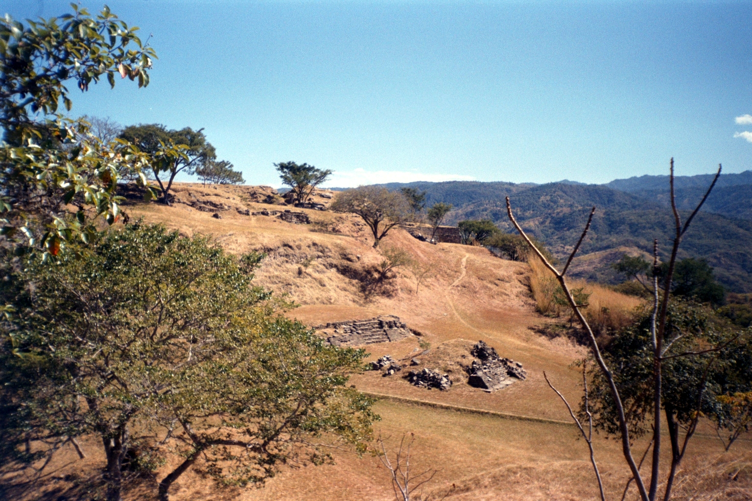 The lower portion of Group C at Mixco Viejo, with the once-restored but now ruined Pyramid C11 and the Platform C14.